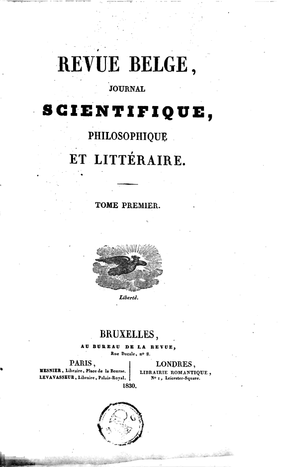 Title page of the Belgian Revue belge: journal scientifique, philosophique et littéraire vol 1 1830